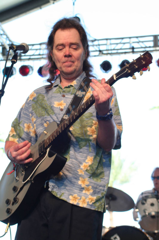 Roky Erickson, Coachella 2007 Photo by Paul Familetti